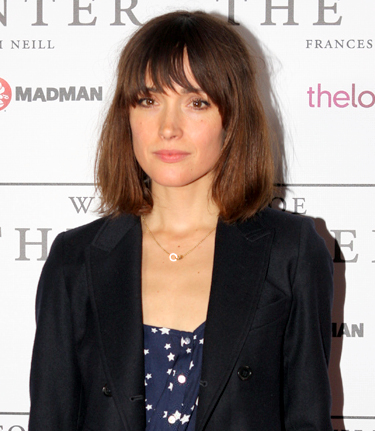 Rose Byrne at the at the Sydney film premiere of The Hunter 2011.